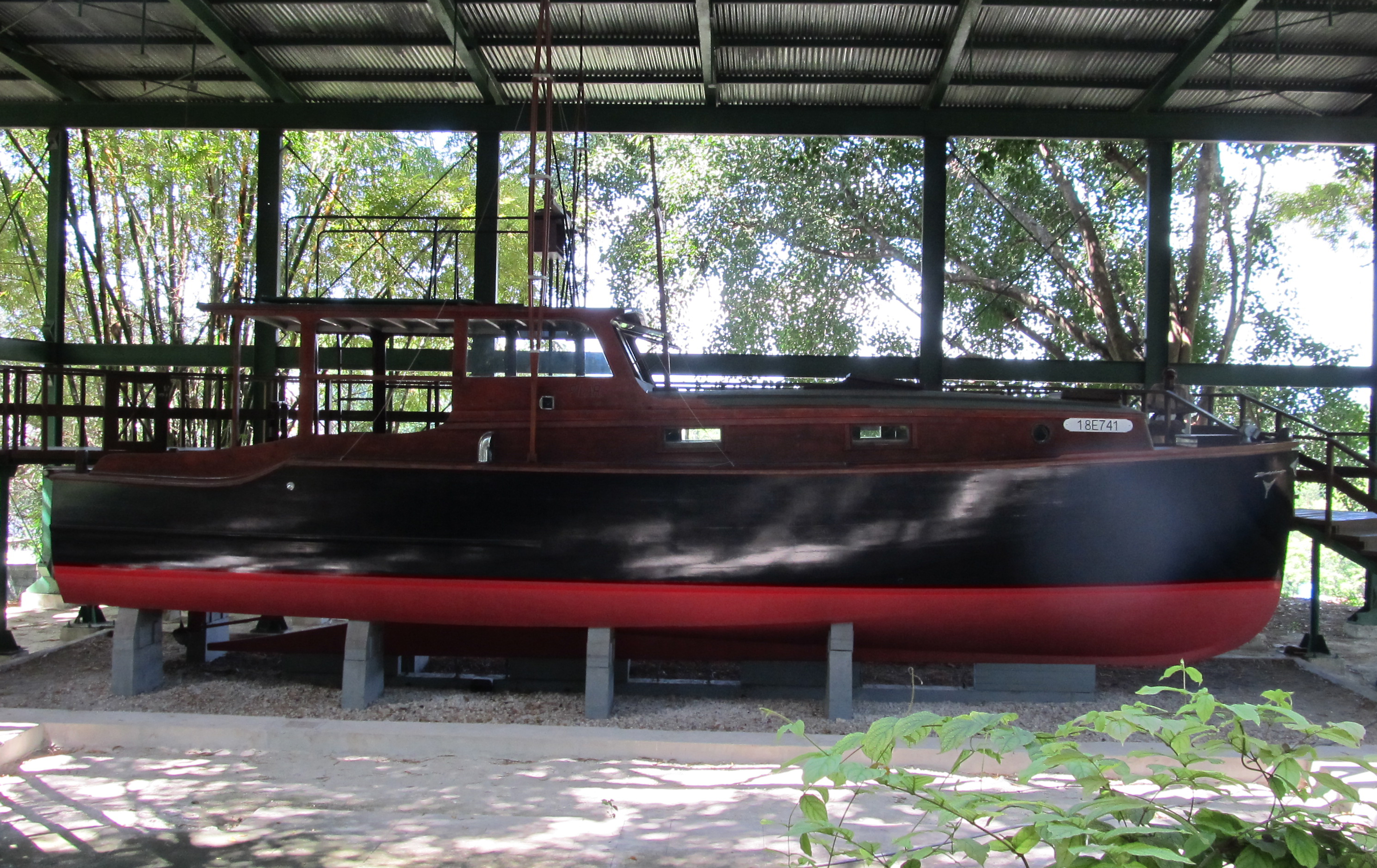 Photo of the actual boat, Pilar, in the Hemingway Museum in Havana, Cuba